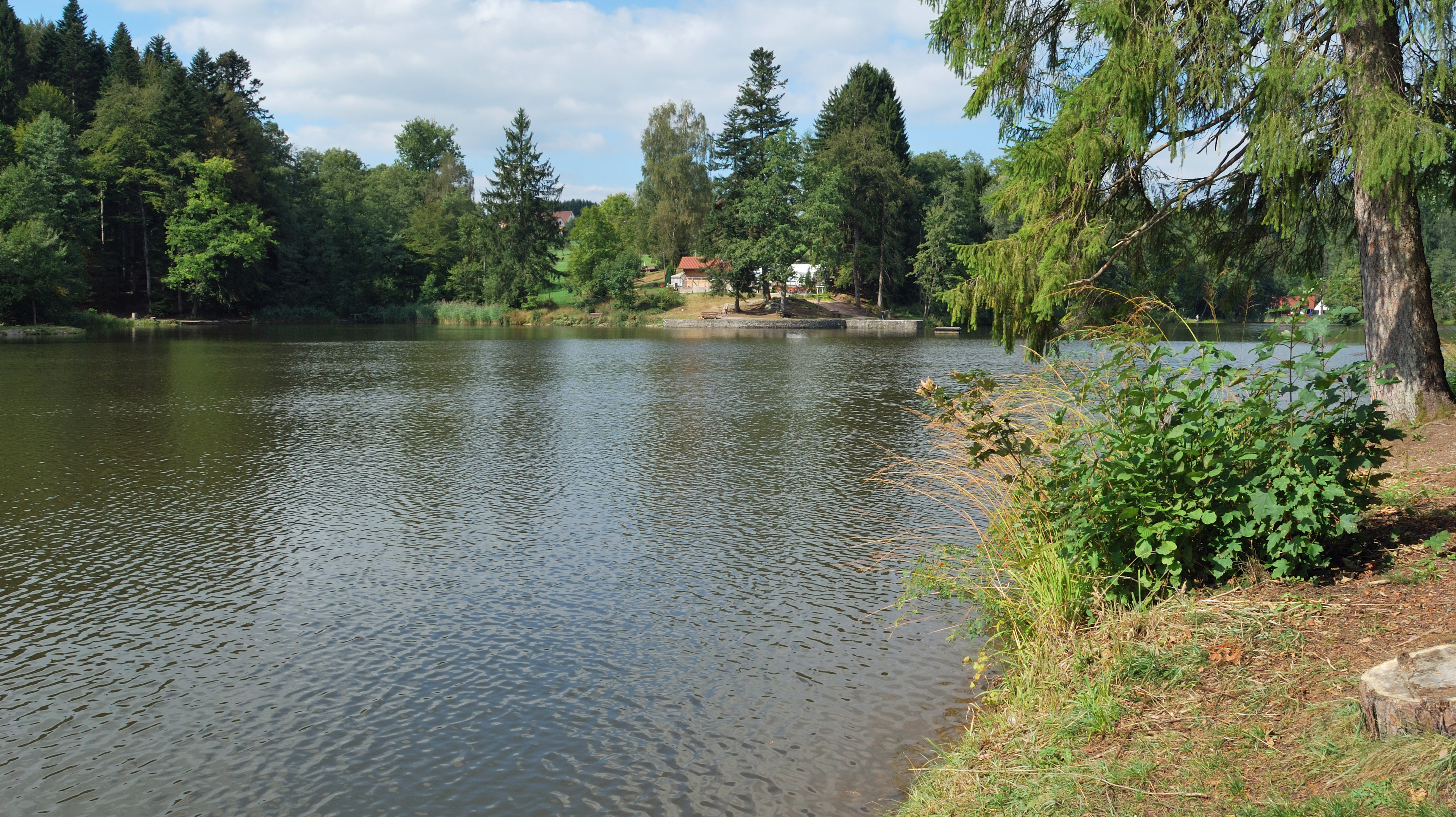 Ebnisee in the Rems-Murr district